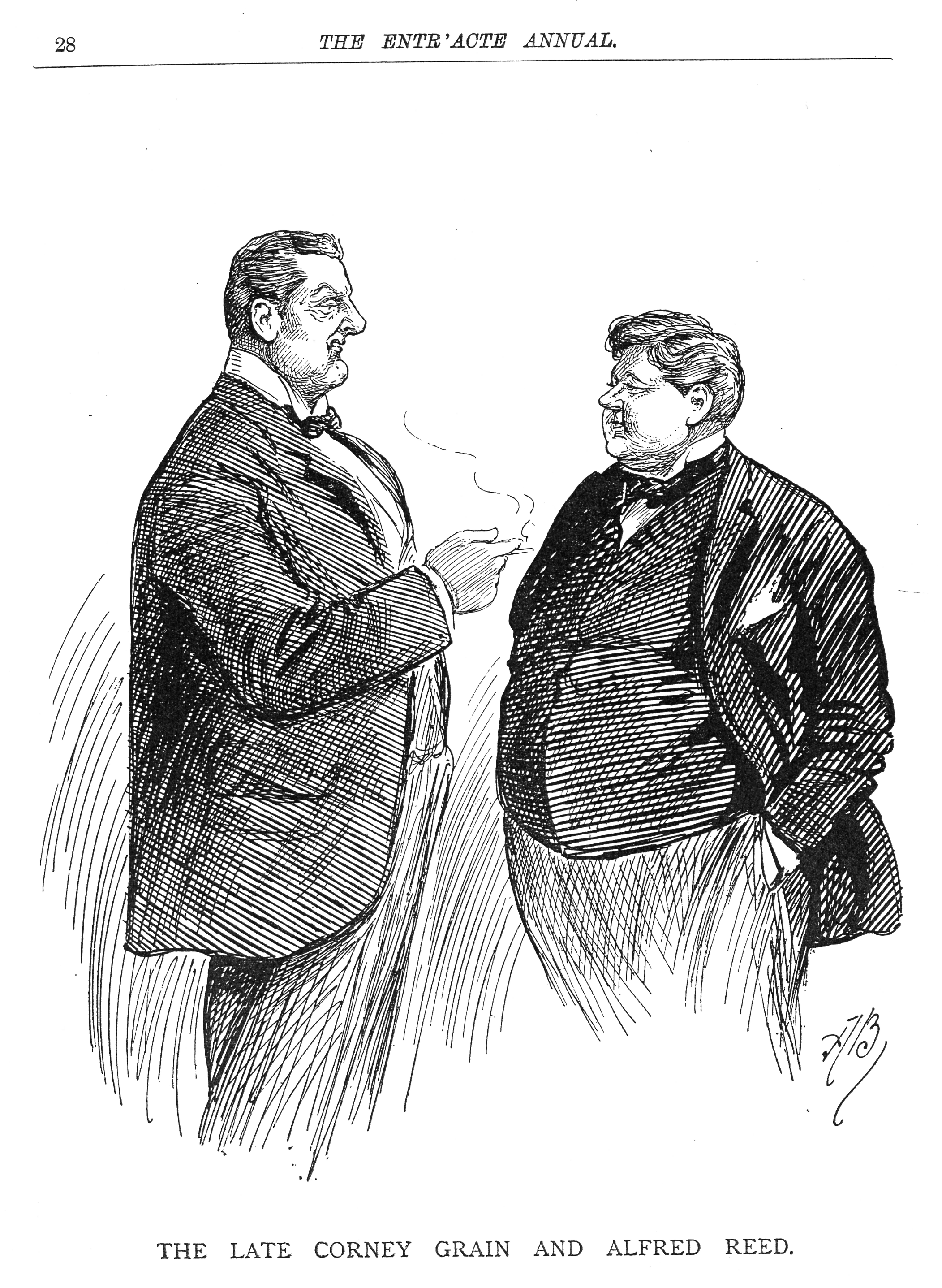 Richard Corney Grain (26 October 1844 - 16 March 1895), known by his stage name Corney Grain, was an entertainer and songwriter of the late Victorian era. Alfred German Reed (1846-1895) was actor and theater manager involved in the German Reed theatre in London founded by his father Thomas German Reed.